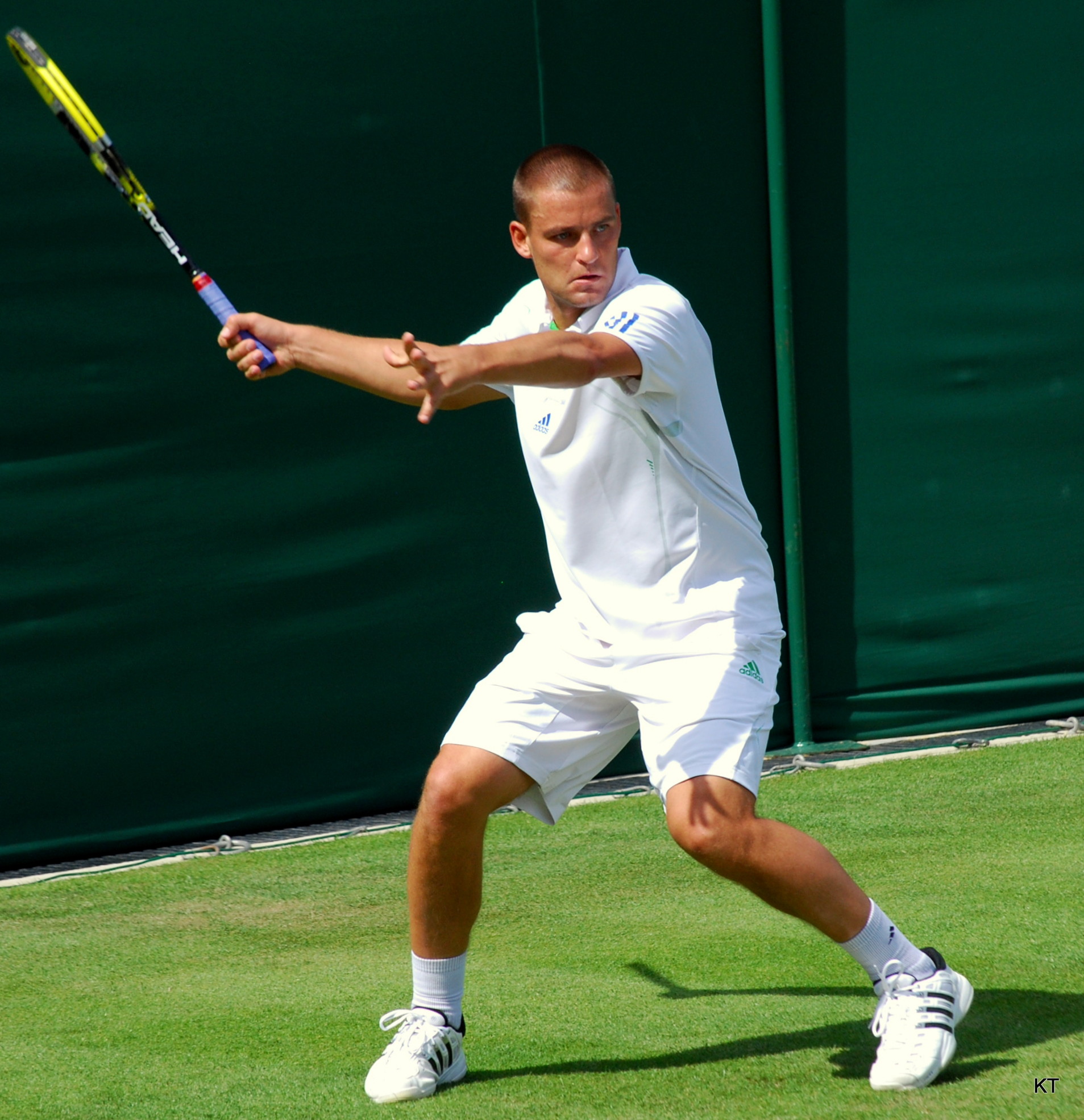 Mikhail Youzhny during his first round match with Juan Monaco. Youzhny won 4-6, 6-2, 6-2, 4-6, 6-4. Day 2 of Wimbledon 2011.